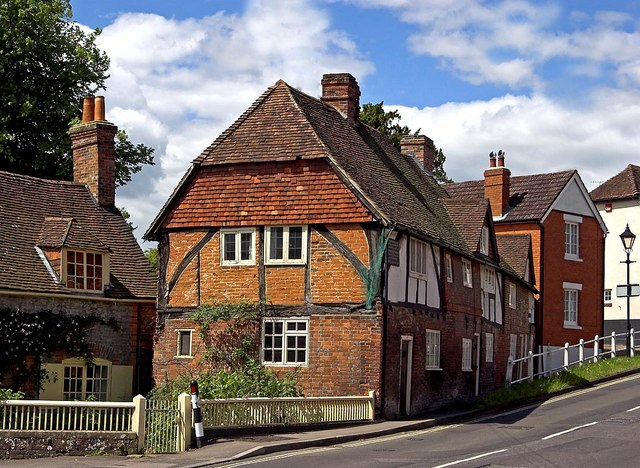 Cottages and Houses. The centre of Wickham has many historical Buildings. These are located in Bridge St, Wickham.